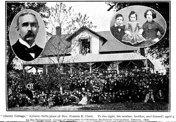 "Cherry Cottage", Aylmer birth-place and family home of Rev. Francis Edward Clark D.D., LL.D 1851-1927. To the right, his mother, brother and himself aged 3. In the foreground, delegates to Christian Endeavor Convention, Ottawa, 1896. [On Feb 2, 1881 Rev. Clark founded the first formal church youth organization, Christian Endeavor, the prototype of the modern denominational "youth fellowship". Constructed in 1862, the house is listed in the Register of Cultural Heritage of Quebec